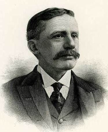 Engraving of Rep. Henry Burk, Pennsylvania